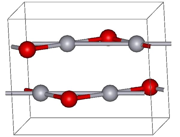 Montroydite lattice structure (HgO, HgS), red atoms are oxygens Orthorhombic Symbol (2/m 2/m 2/m) Space Group: P nma